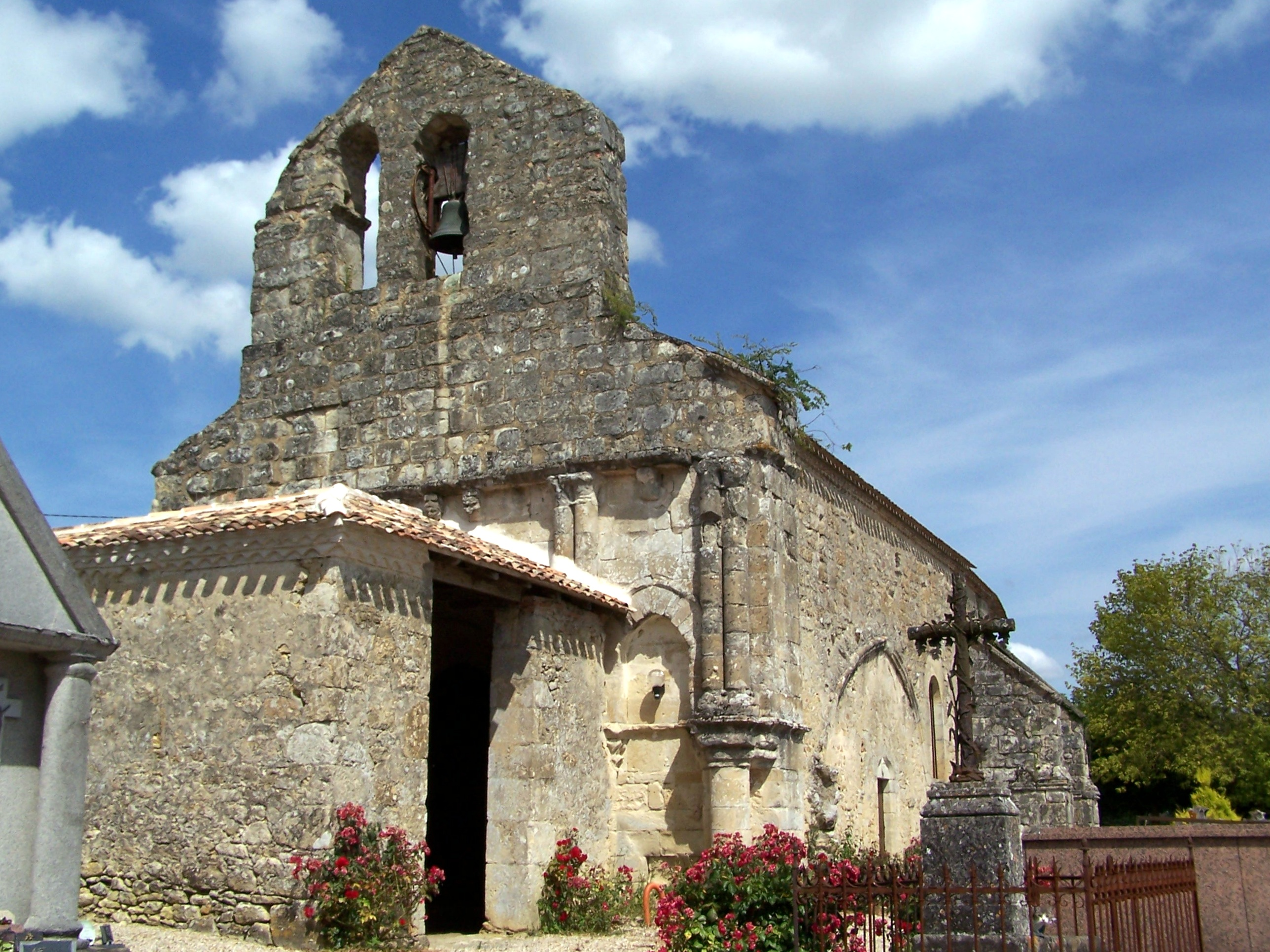 Church Saint-Barthélemy of Listrac-de-Durèze (Gironde, France)